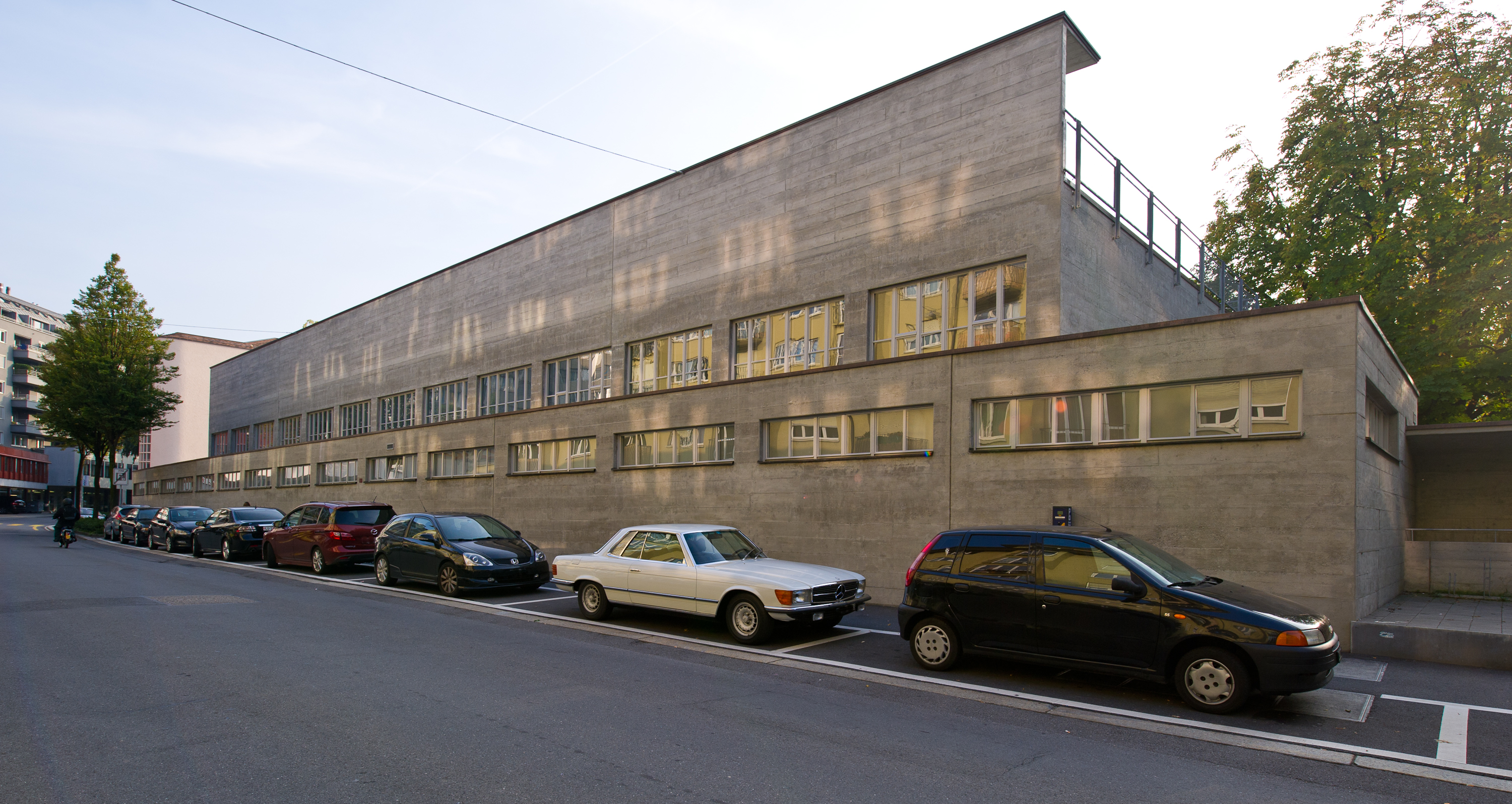 Dula school building, Lucerne, LU, Switzerland.